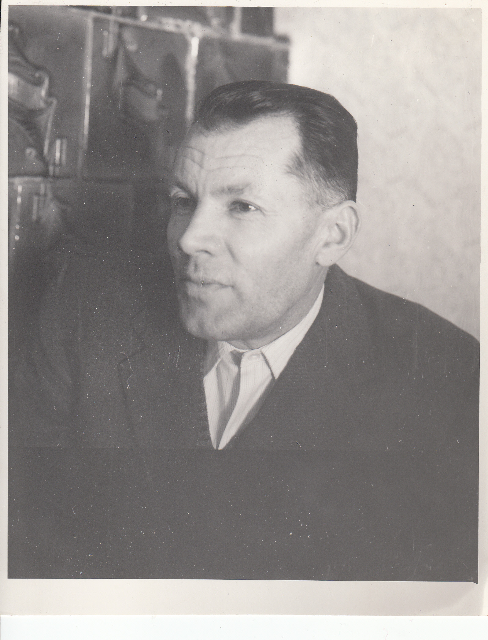 A photograph of Janko Čeman (real name Michal Kámaň) (1922-1987), Vojvodinian Slovak writer. Inventory number 3223. Srpski (latinica): Fotografija Janka Čemana (pravo ime Mihal Kamanj) (1922-1987), slovačkog književnika. Inventarski broj 3223.